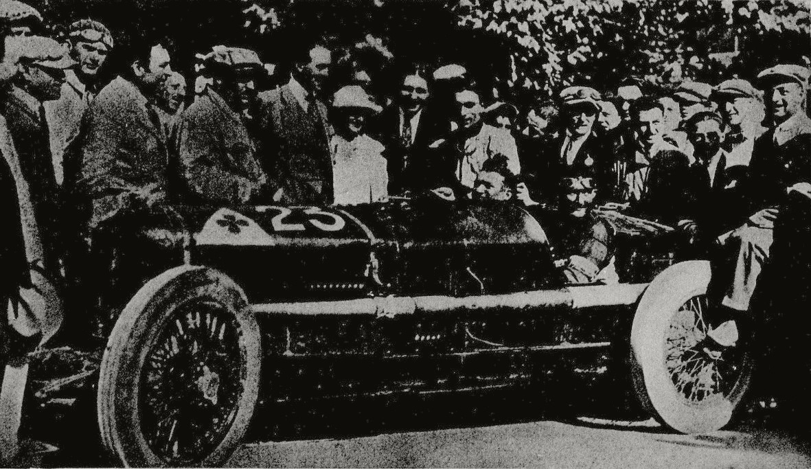 Ascari seated in the winning Alfa Romeo P2 at Cremona on 9 June 1924. Behind him is driver Eugenio Siena, and towards the left I think it is Louis Wagner, another Alfa driver (goggles on his forehead). This picture may have been taken by Ernesto Fazioli of Cremona, as he had a very similar picture taken (source: [1])